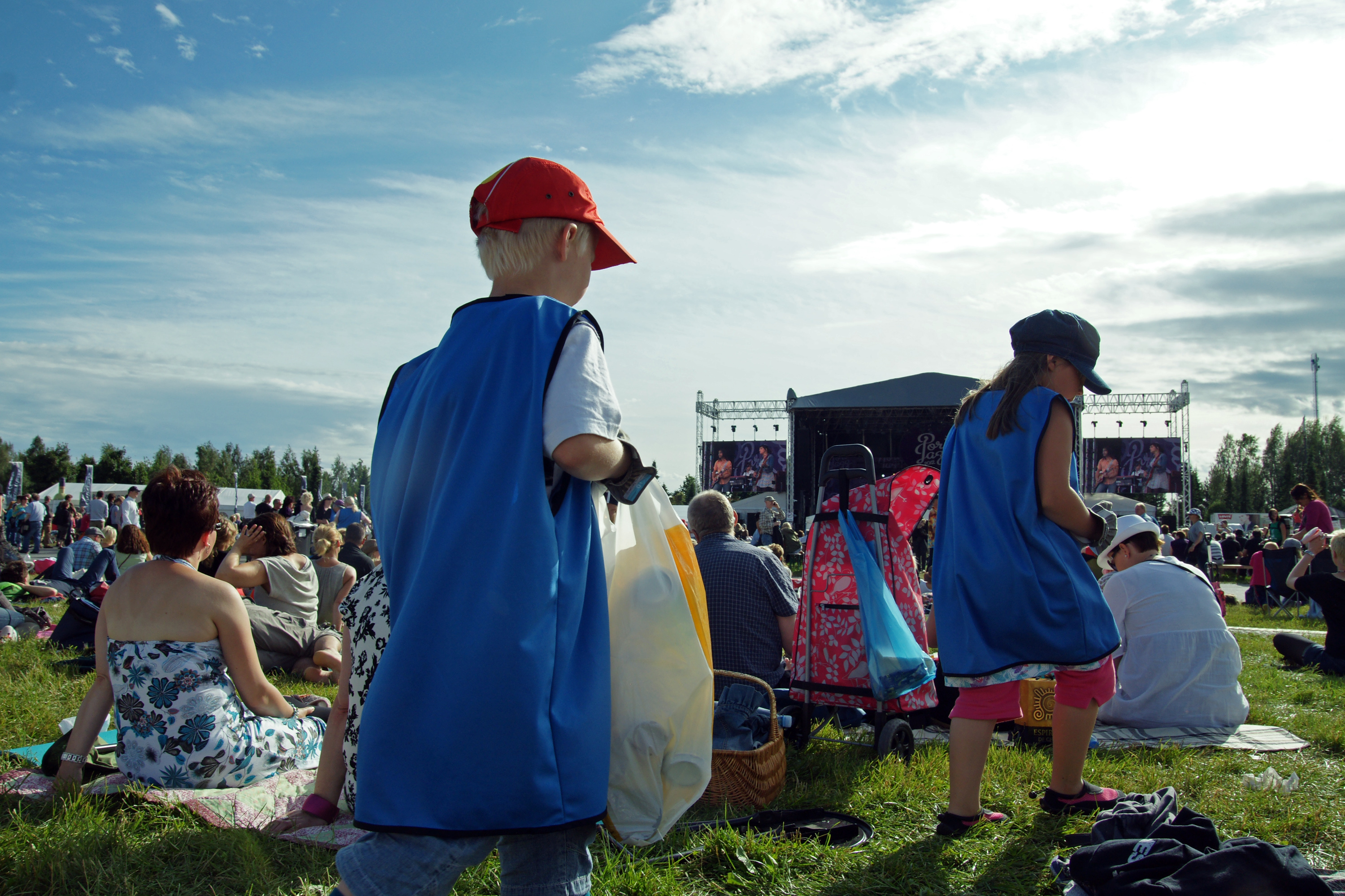 Kirjurinluoto Arena in Pori Jazz 2012.